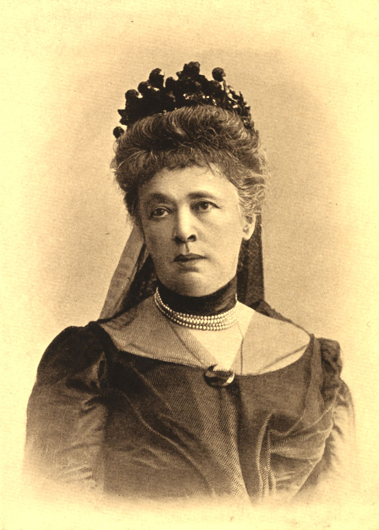 Bertha von Suttner, Austrian novelist, radical (i.e. organizational) pacifist, and the first woman to win the Nobel Peace Prize.